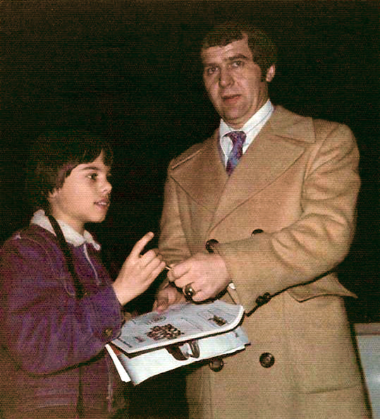 Young hockey fan gets an autograph from Boston Bruins General Manager Harry Sinden, following game versus the Buffalo Sabres at Boston Garden on April 1, 1975.